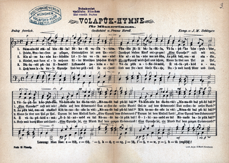 Sheet music with text in Volapük and German.